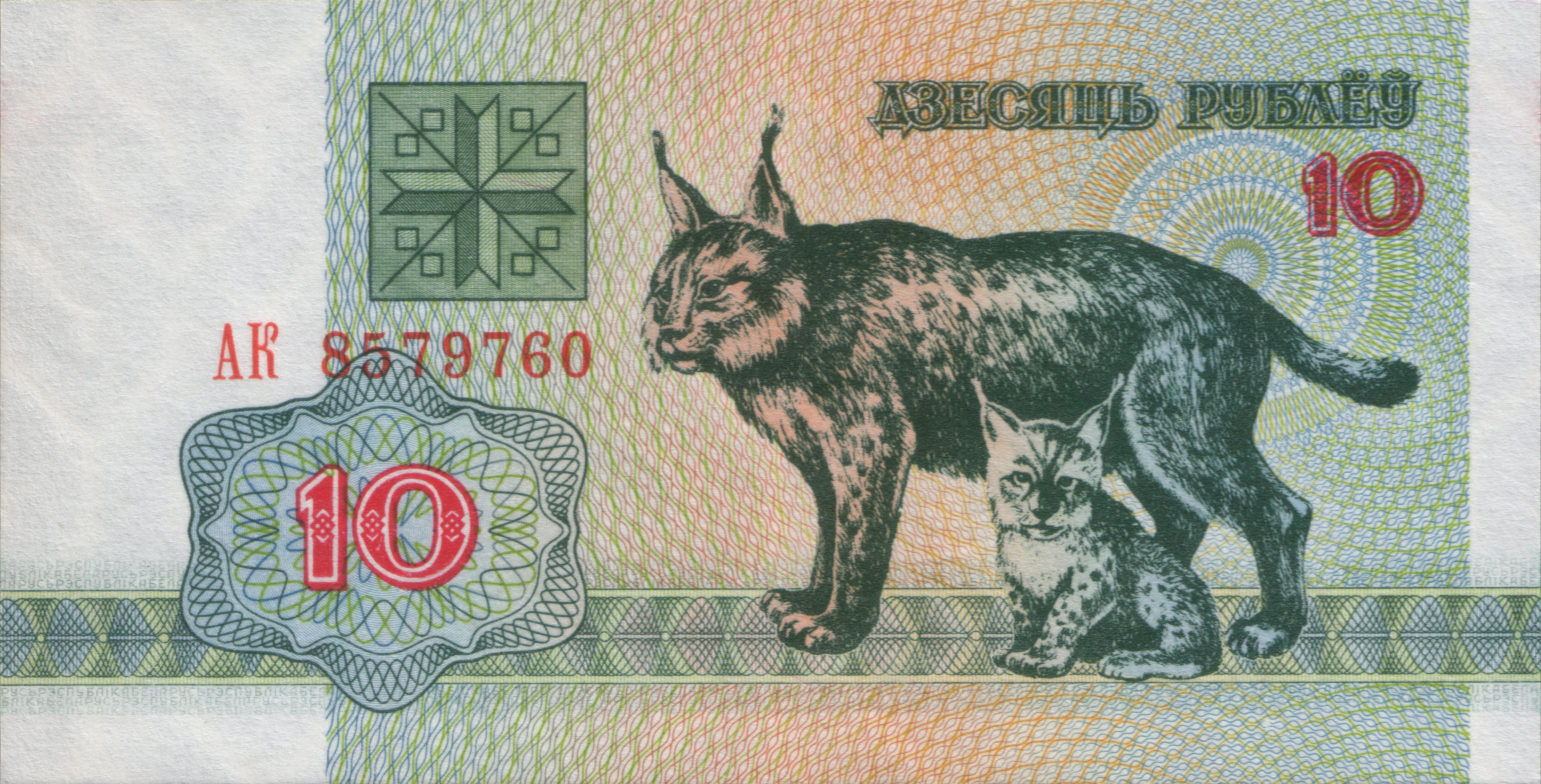 10 roubles of Belarus (1992)